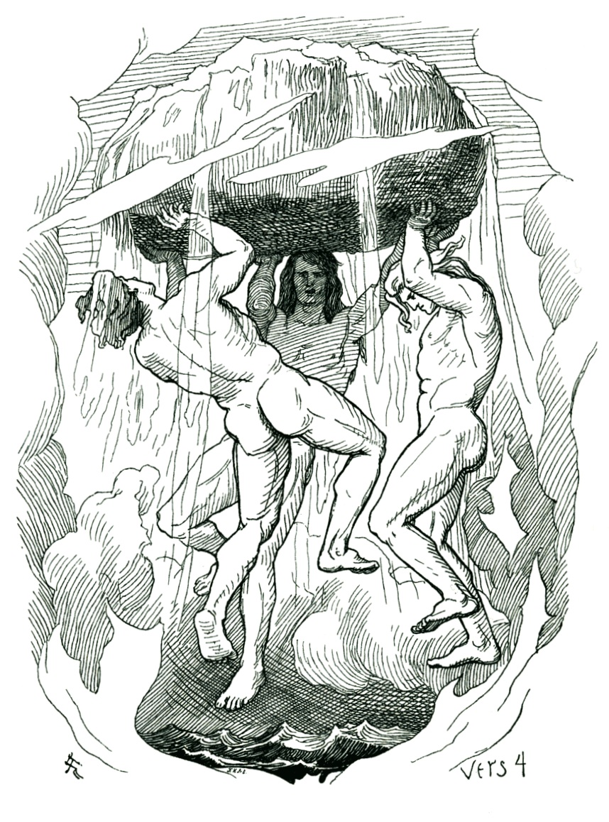 Odin and his two brothers create the world out of the body of Ymir. By Lorenz Frølich